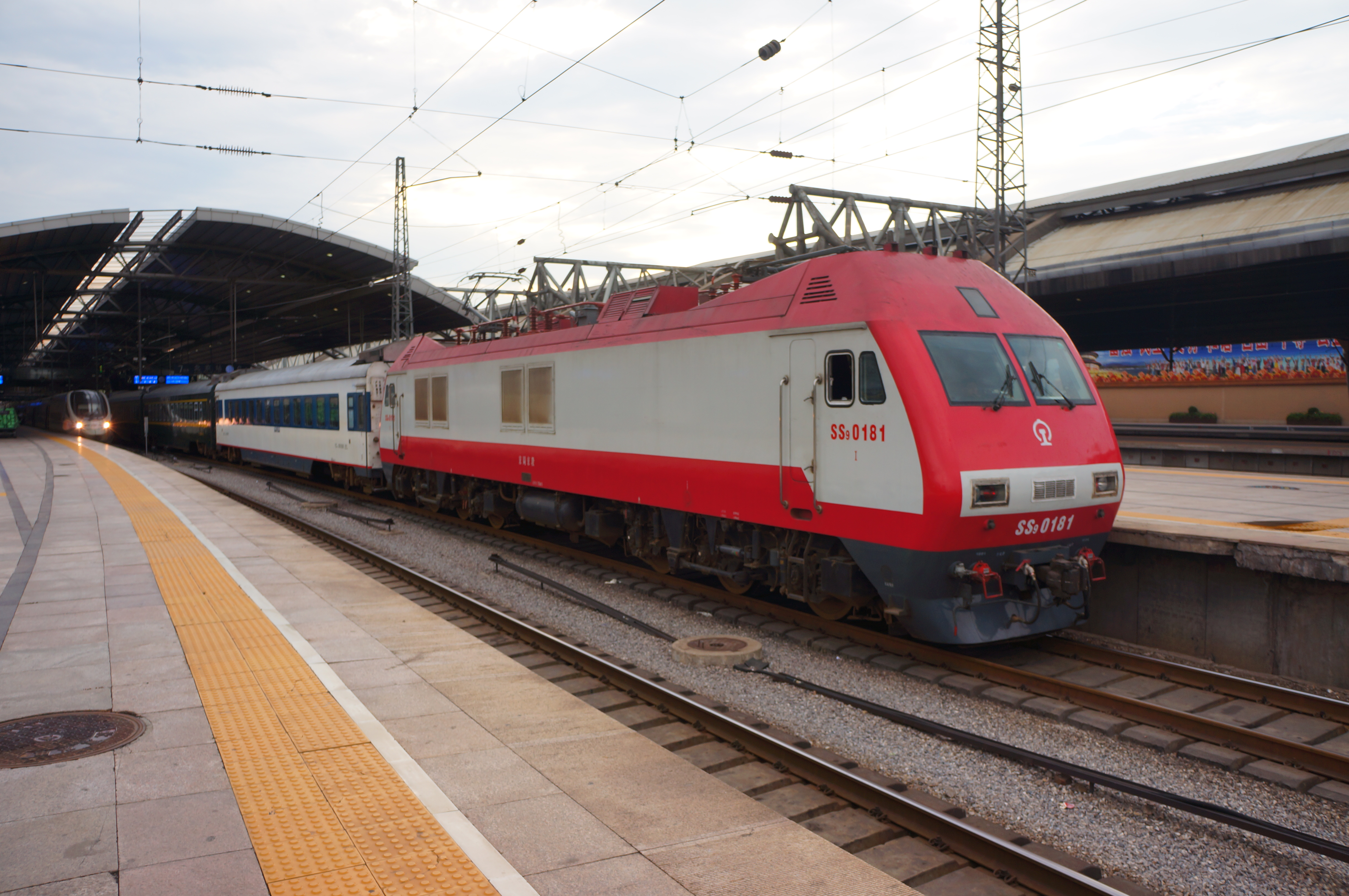 201606 Z139 for Nantong Direction waits for departure at Beijing Station